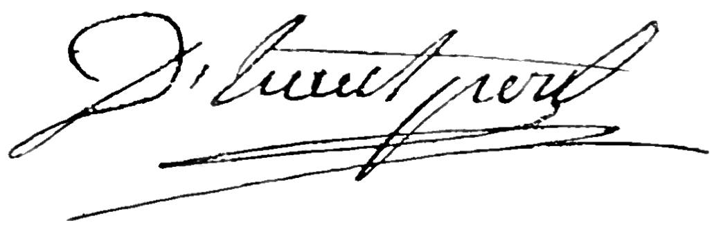 Signature of the french general Jean-Joseph Ange d'Hautpoul (1754-1807)